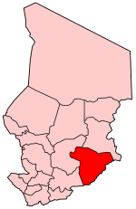 Map of Chad showing Salamat region.